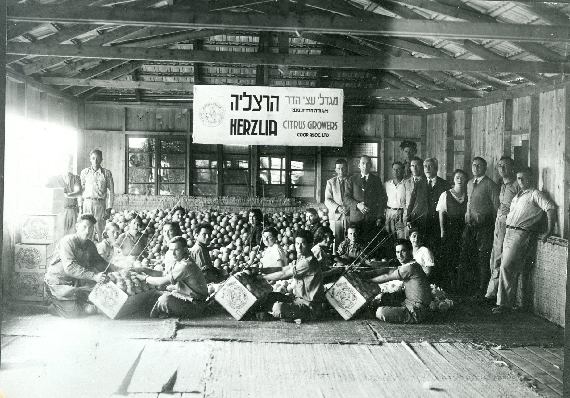 Jewish workers from the Bnei Binyamin Association at a packing house for citrus in Herzliya during the early 1930s.